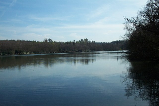 Tilgate Lake, Tilgate Park, Crawley The fishing rights to this lake are owned by a local fishing club. The members were holding a fishing competition the day we were there. Guess the lake must be good for fish - none of the competitors seemed to have been able to persuade any of them to leave it.